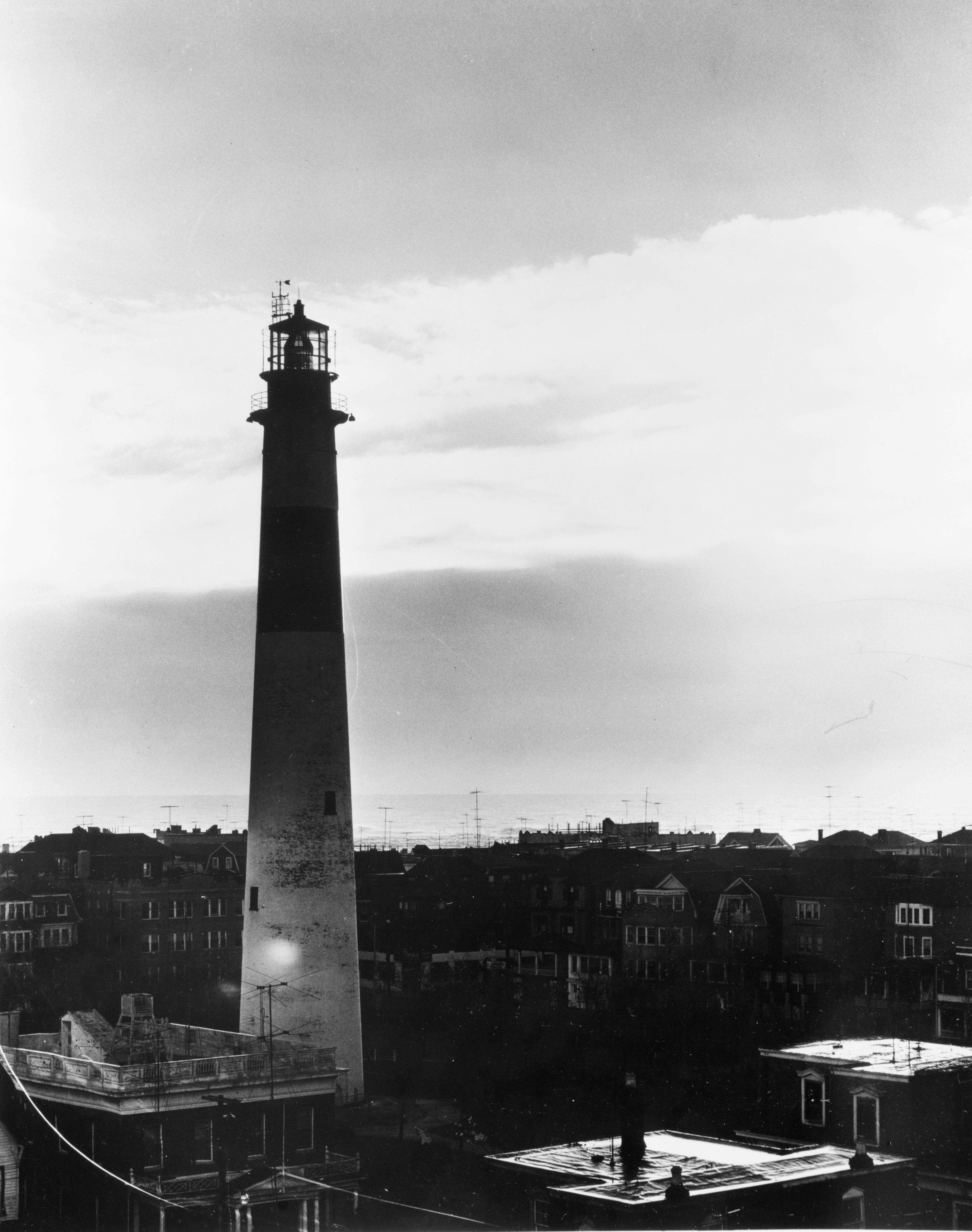 The Absecon Light is a coastal lighthouse located in the north end of Atlantic City, New Jersey. On NRHP since 1971